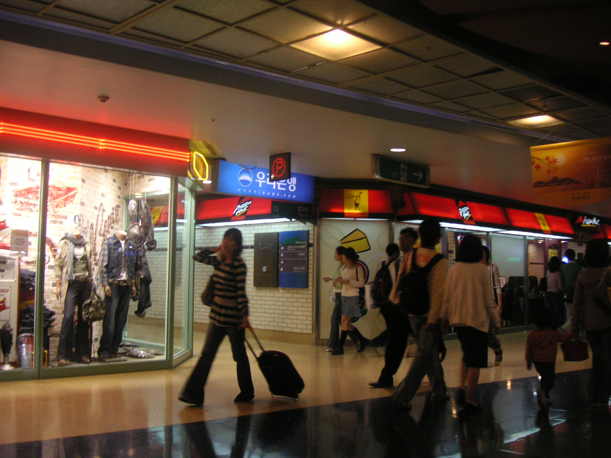 I took this for use in Wikipedia. COEX mall located in Samseong-dong, Gangnam-gu, Seoul, South Korea; Category:Images of Seoul Summary I took this for use in Wikipedia. COEX mall located in Samseong-dong, Gangnam-gu, Seoul, South Korea